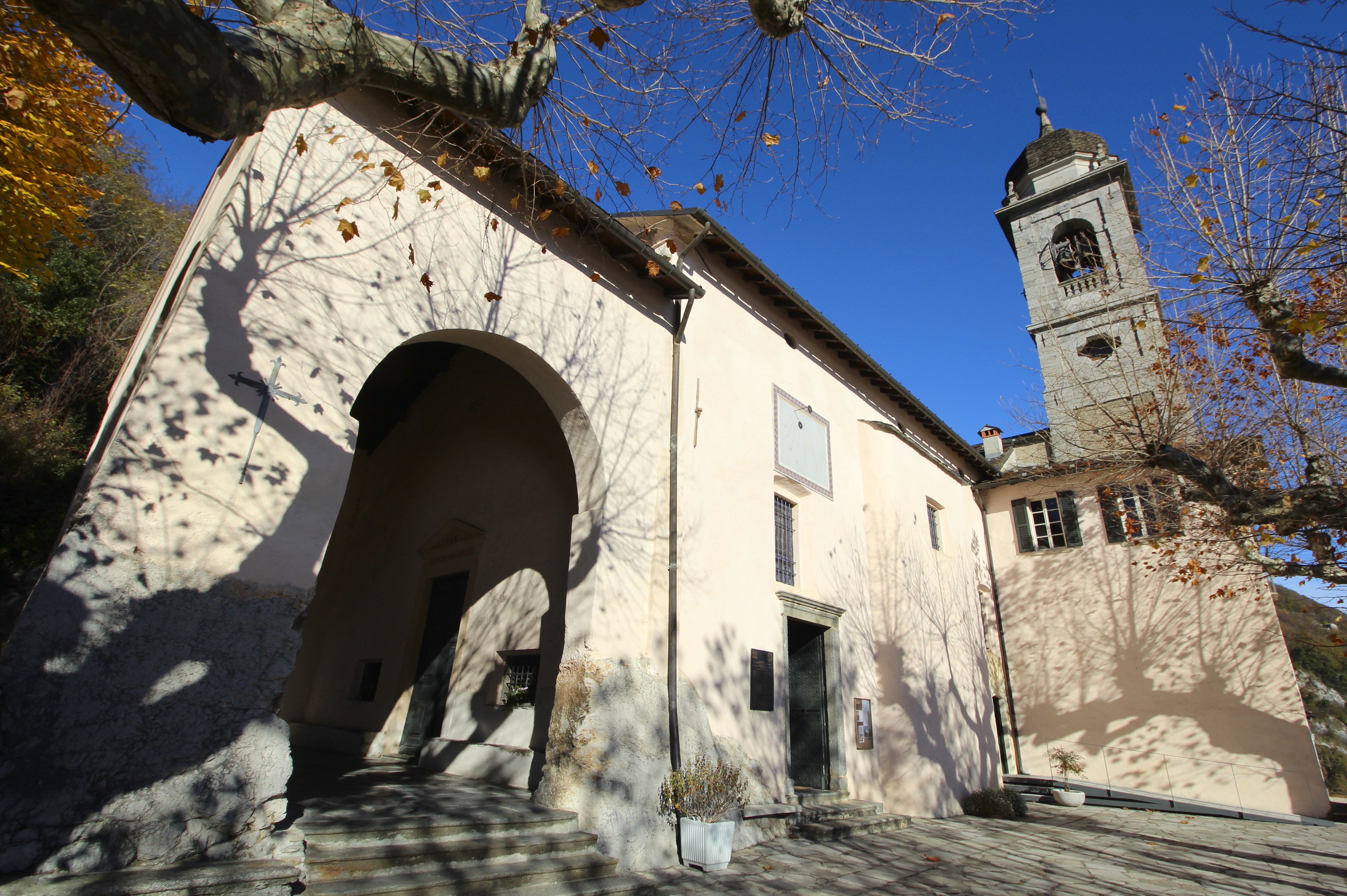 Sacro Monte di Ossuccio, Tremezzina, Province of Como, Lombardy, Italy: Sanctuary Santuario della Beata Vergine del Soccorso